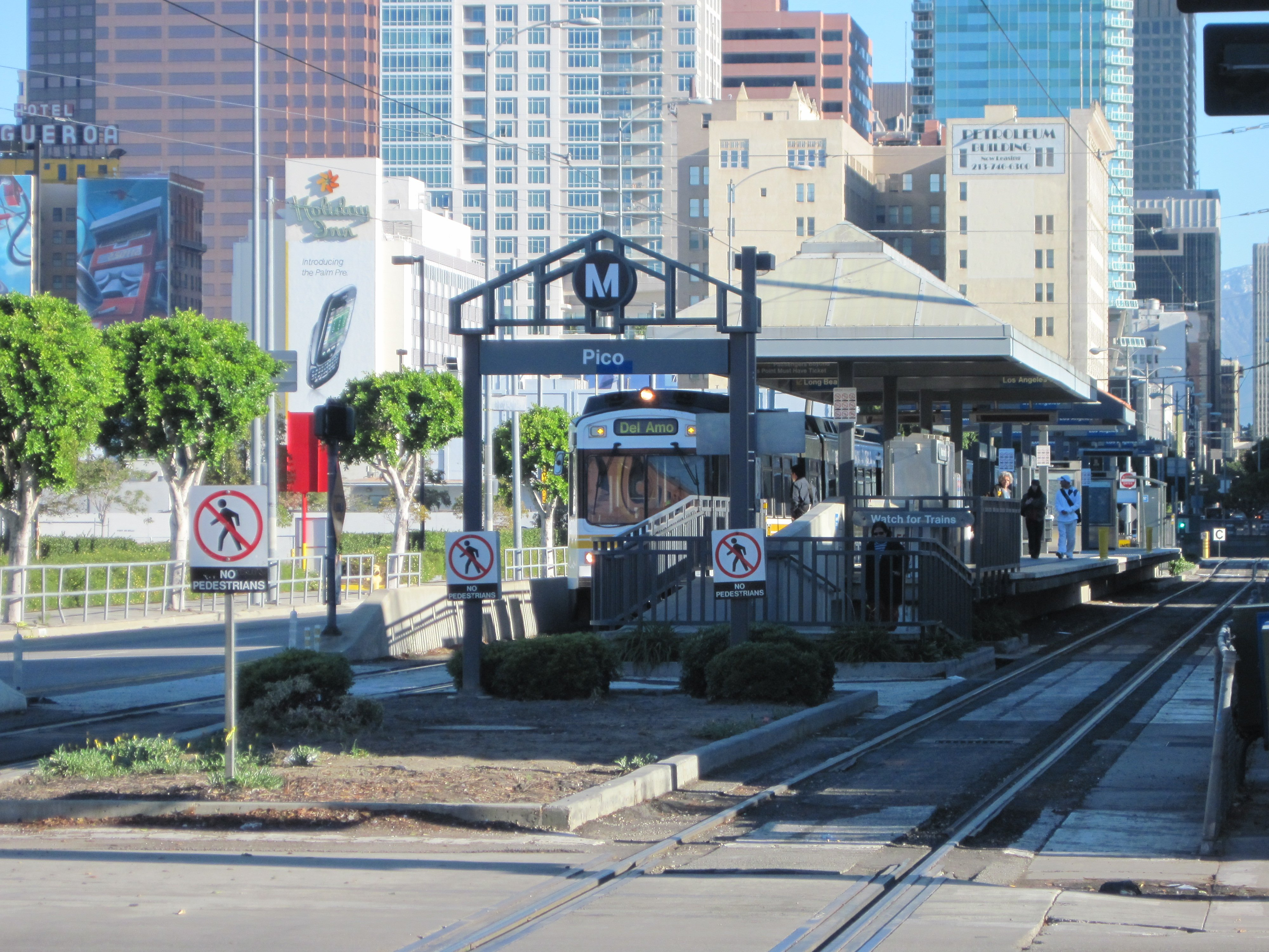 A Long Beach-bound train waits at the platform at the Los Angeles County Metropolitan Transportation Authority's Pico station, serving the Metro Blue Line in Los Angeles, California, USA.